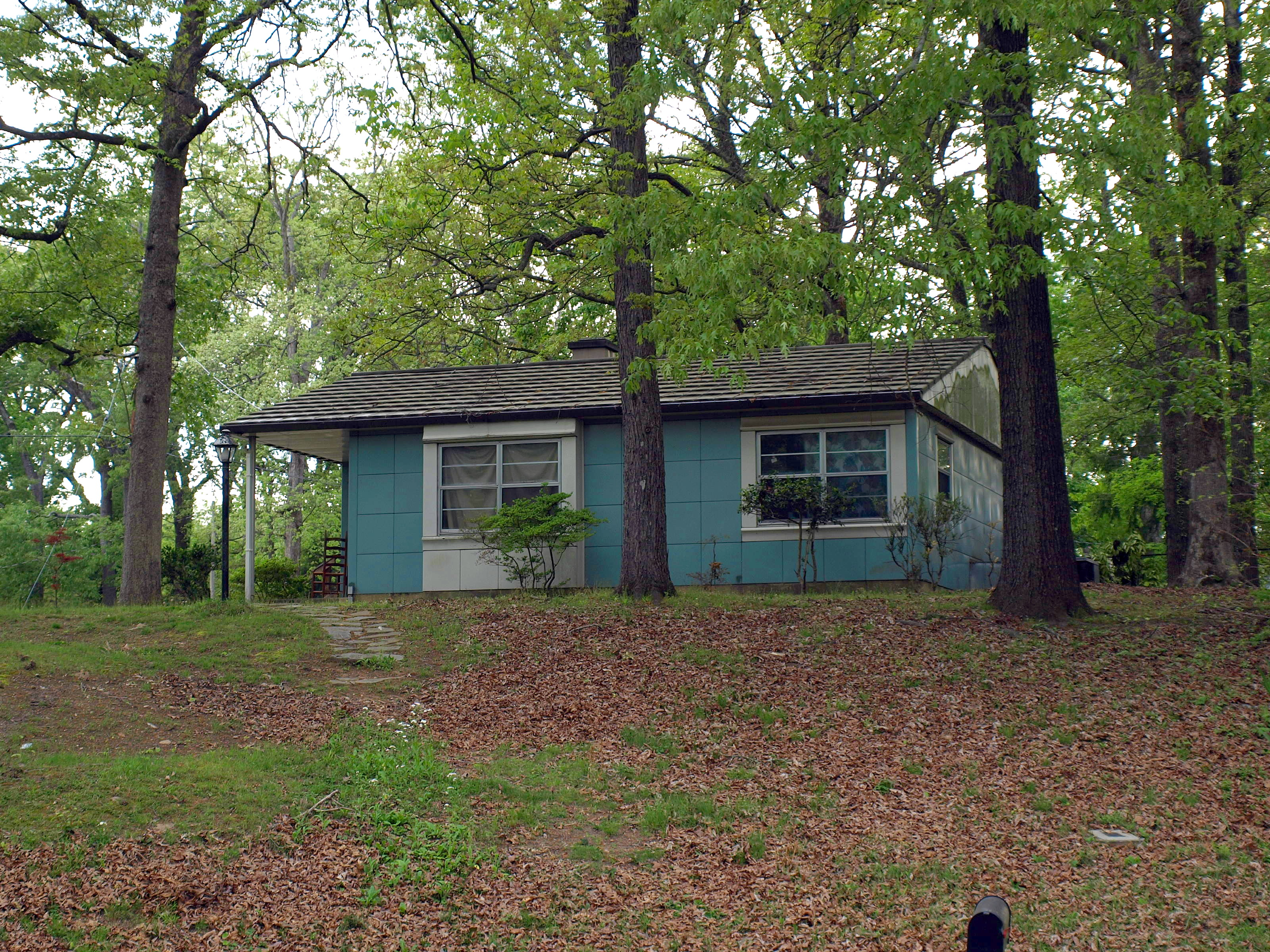 The William Bowen Lustron House in Florence, Alabama, listed on the National Register of Historic Places.